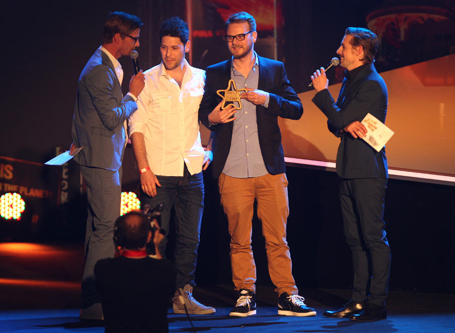 Fotos: C.Wolff/European Web Video Academy